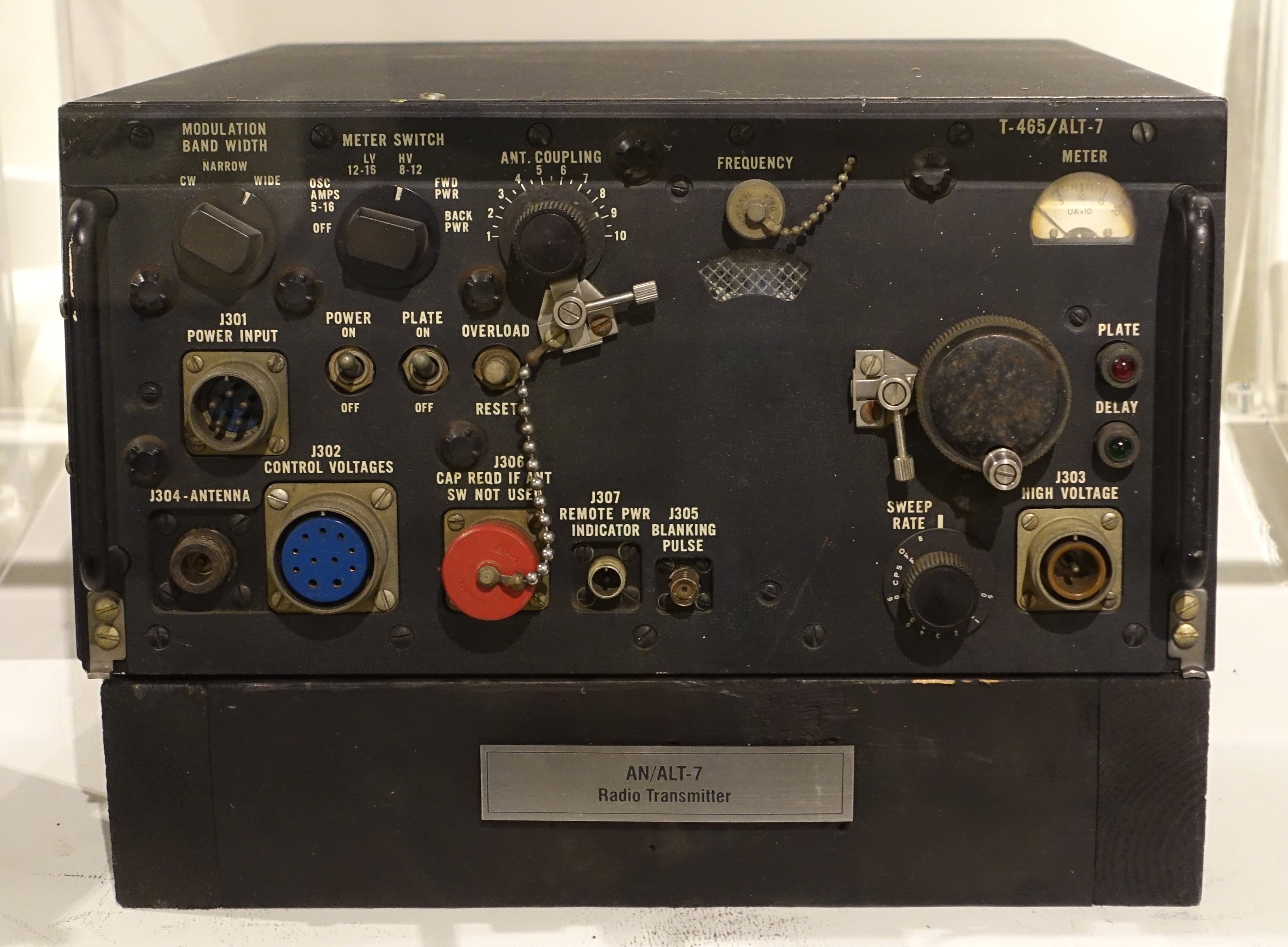 Exhibit in the National Electronics Museum, 1745 West Nursery Road, Linthicum, Maryland, USA. All items in this museum are unclassified. The museum permitted photography without restriction.